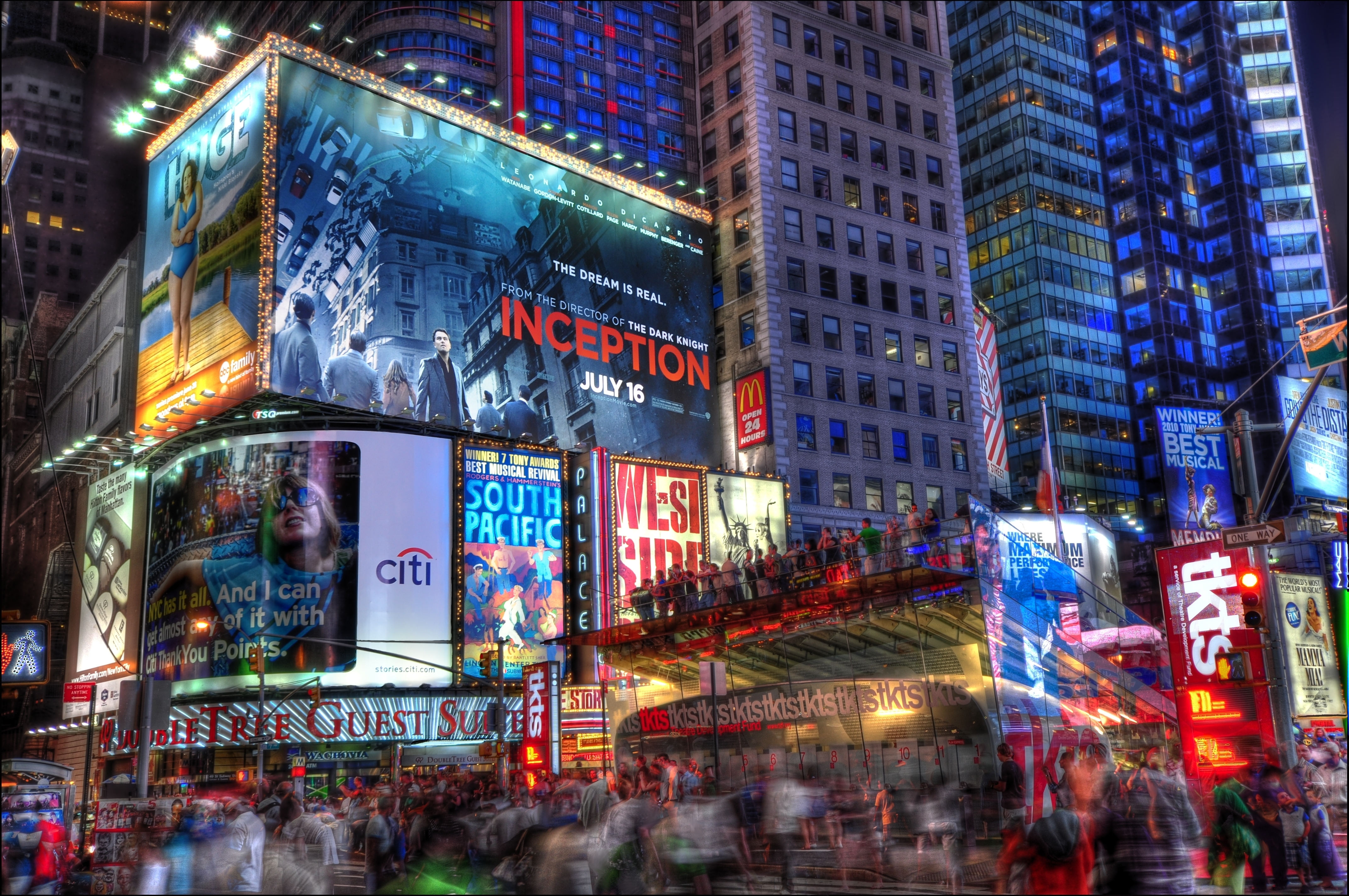 View from Times Square